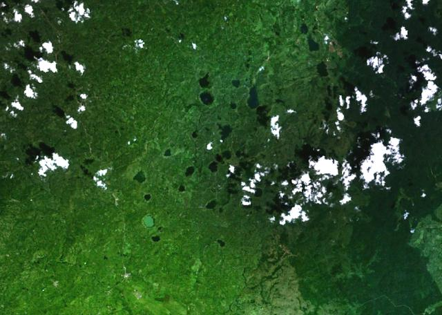 Mostly lake-filled maars and tuff cones dot the center of this NASA Landsat image (with north to the top) of the Kyatwa volcanic field. The Kyatwa vents, also known as the Ndale volcanic field, occupy the Western Rift Valley, east of the Ruwenzori Mountains halfway between Lake Edward and Lake Albert. The Kyatwa tuff cones are part of a group of Pleistocene-to-Recent volcanic fields in western Uganda.